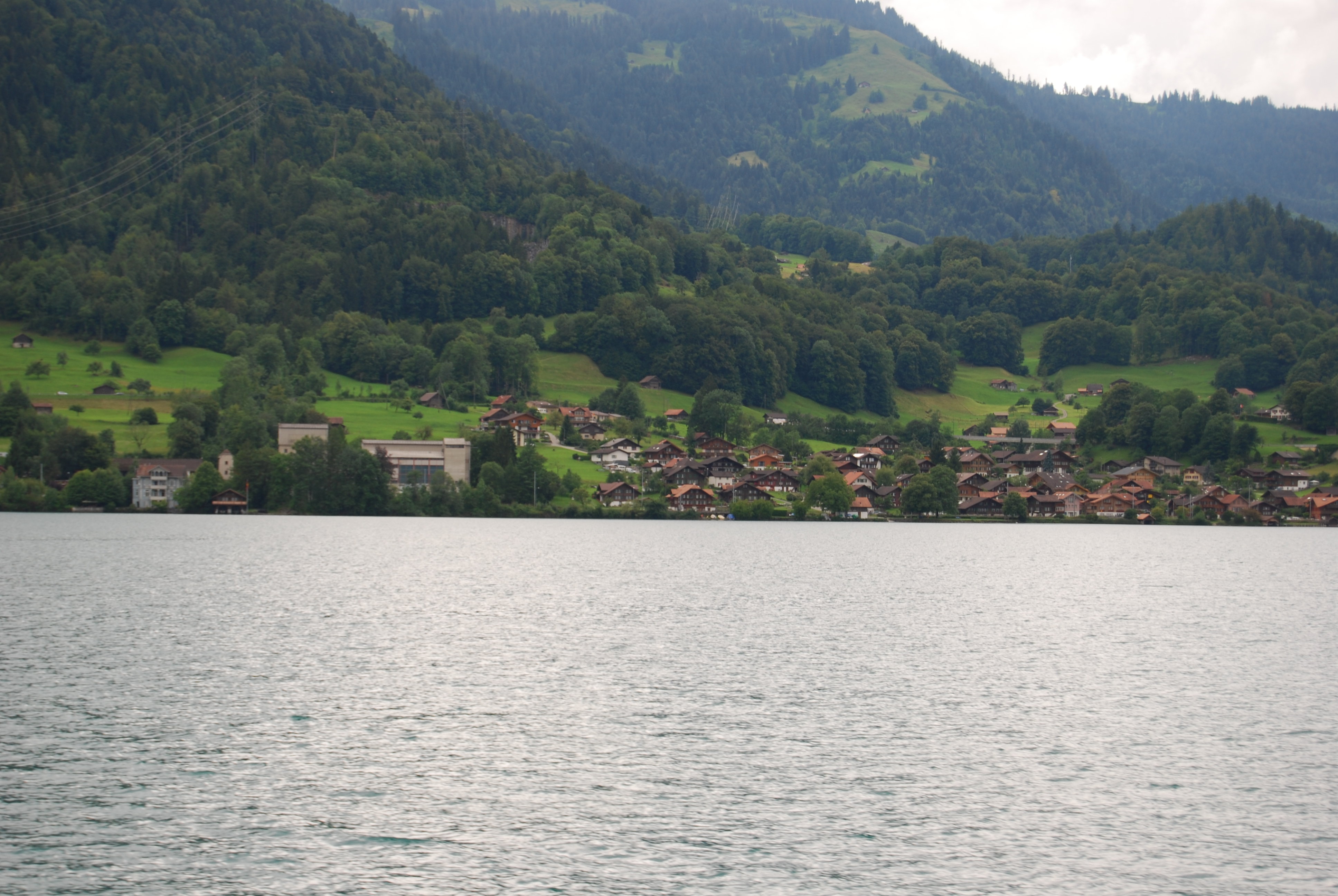 Därligen, canton of Bern, SwitzerlandEsperanto: Därligen, Kantono Berno, Svislando